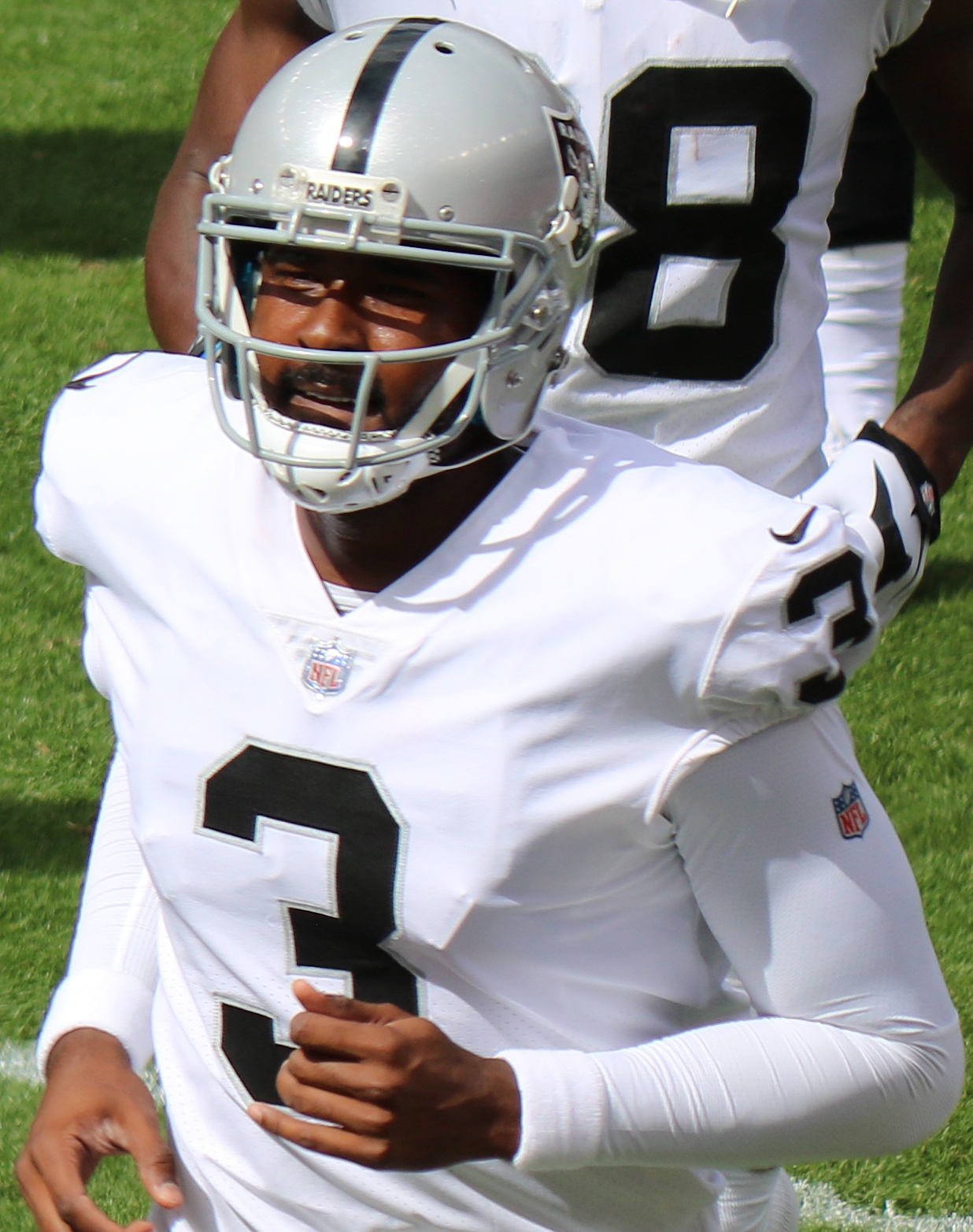 EJ Manuel, a player on the National Football League.